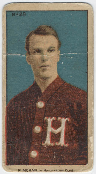 P. Moran hockey card, circa 1910-1912